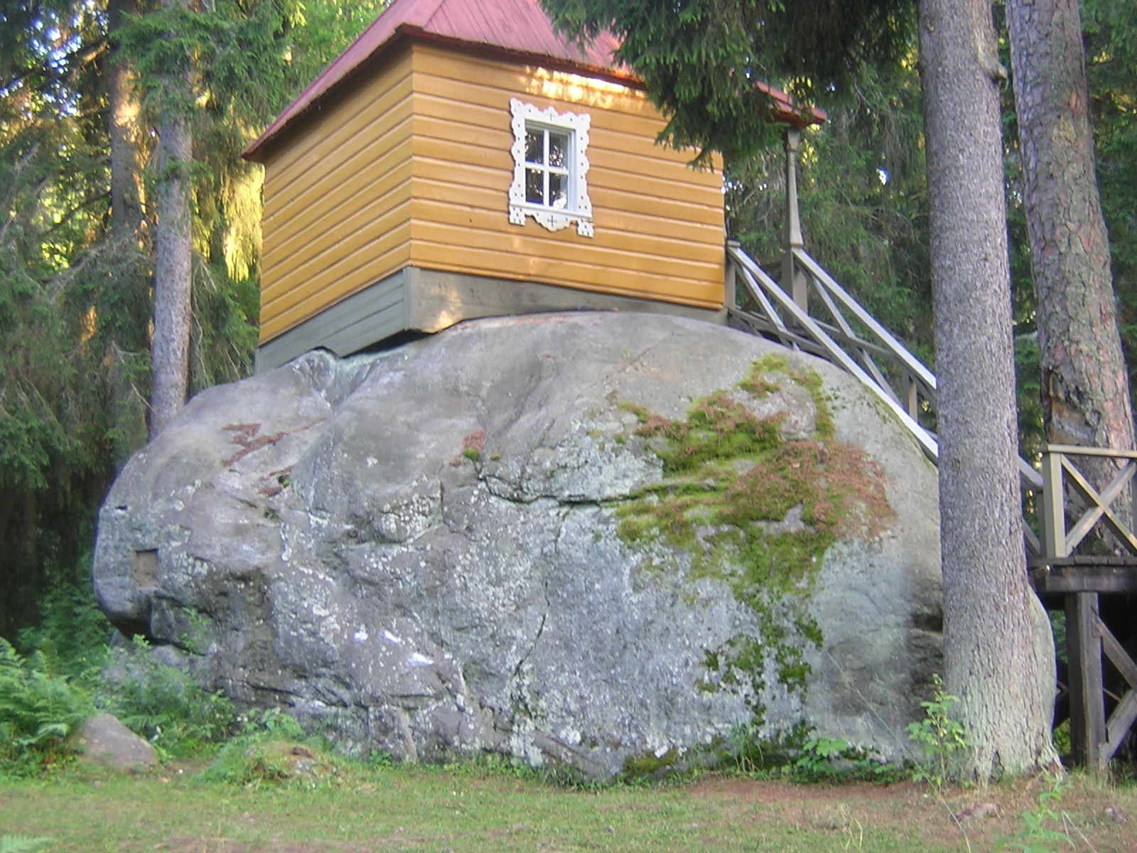 Horse stone on Konevetz iseland. Ladoga see.